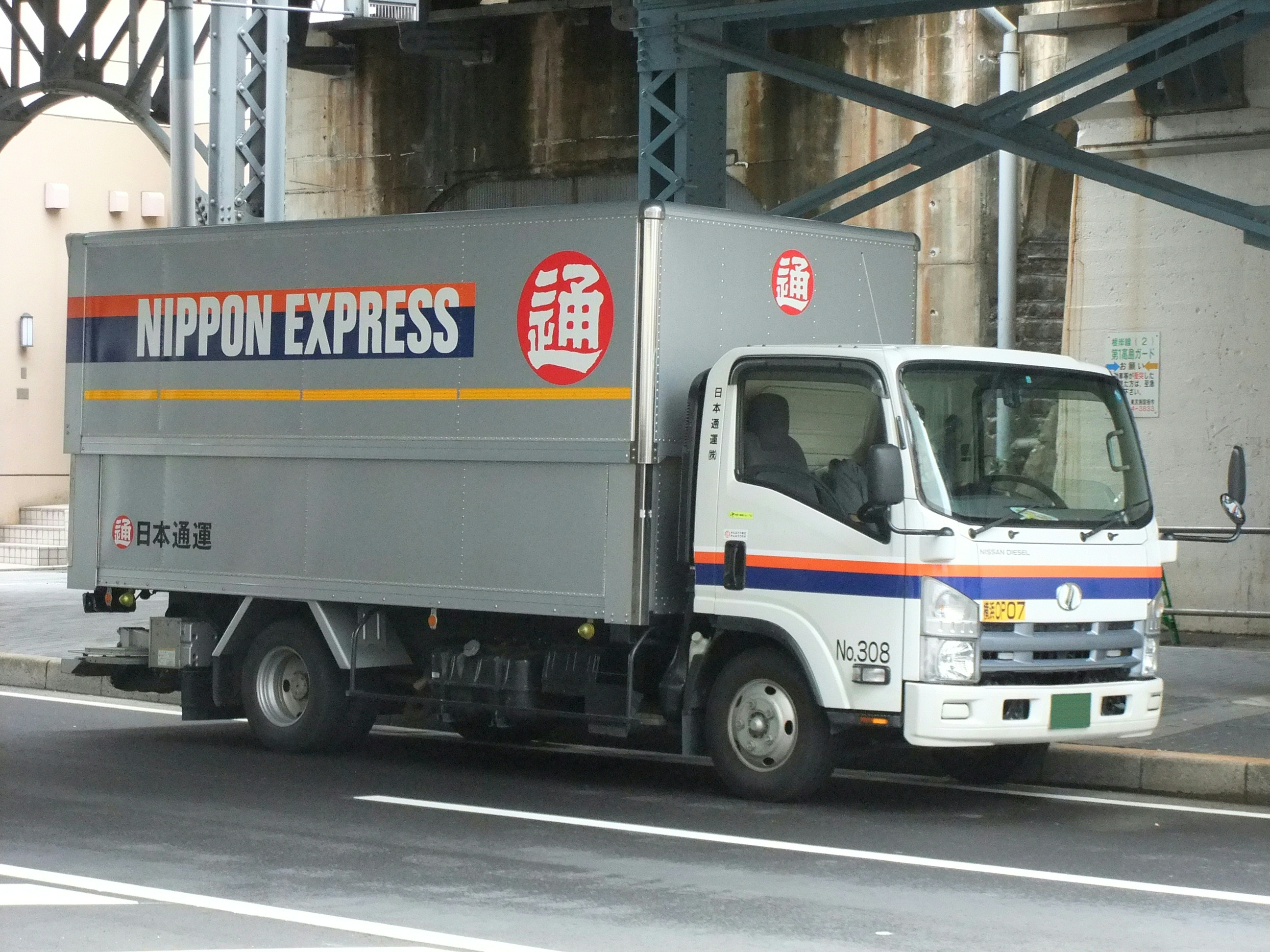 UD Trucks (Nissan Diesel), Nissan Diesel Condor 4th Gen, Nippon Express Truck